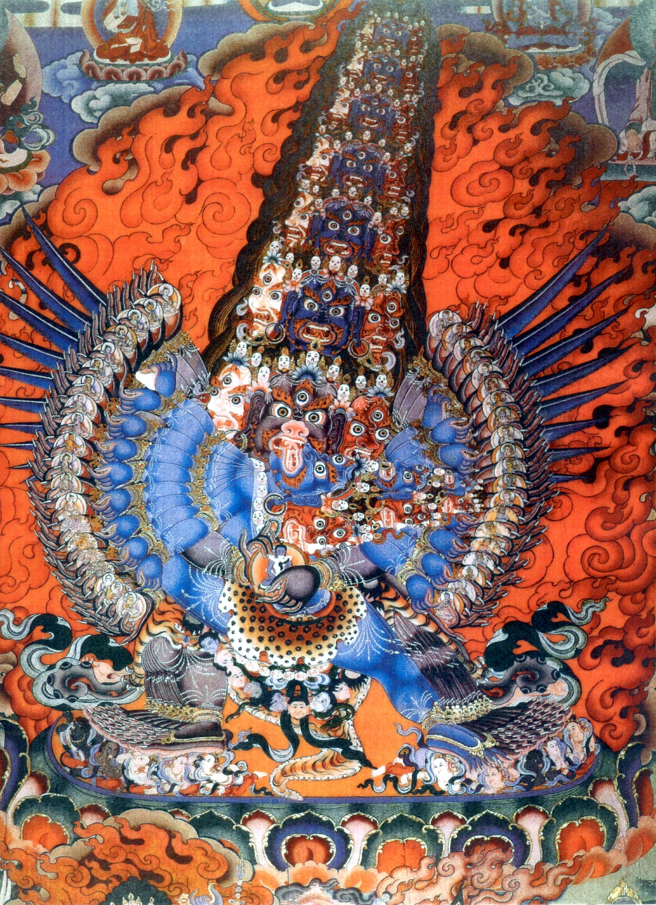 Tibetan thangka of the Blue Tara